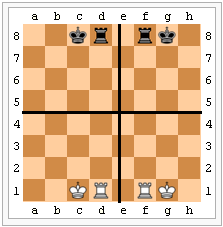 This chess diagram shows all possible king-rook positions after a successful castling.